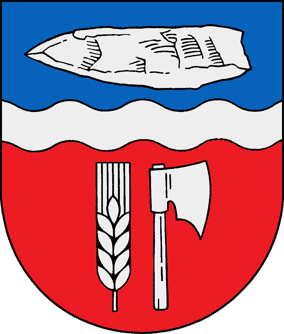 Coat of arms of the municipality Bühnsdorf in Schleswig-Holstein, Germany.